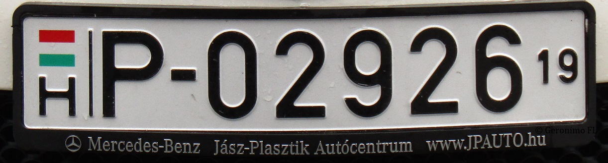 Hungarian 2019 Trial / Dealer plate, seen in Liechtenstein